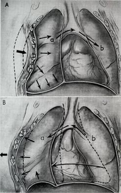 flail chest mechanics. Caption reads: "FIGURE 3.—Schematic showing of pathologic physiology of flail chest. A. Inspiratory phase. Chest wall collapses inward (a), forcing air out of bronchus of involved lung into trachea and bronchus to uninvolved lung and causing shift of mediastinum to uninvolved side (b). B. Expiratory phase. Chest wall balloons outward (a) so that air expelled from lung on uninvolved side (b) enters lung on involved side and mediastinum shifts toward involved side (a). This is a very inefficient form of respiration, and the patient will die of hypoxia and exhaustion if it occurs in an extreme phase and is not relieved."